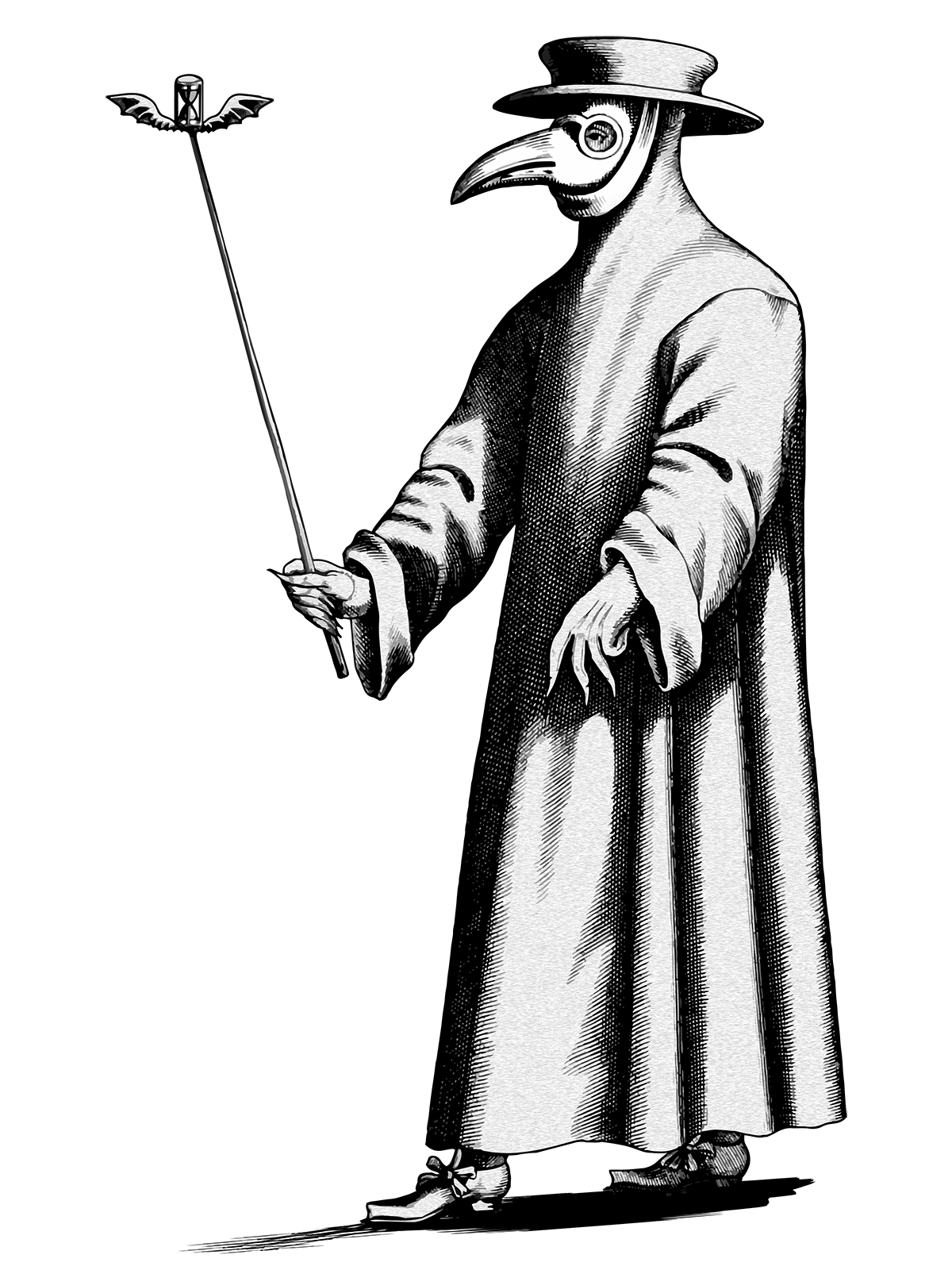 Based on Paul Fürst's circa 1656 copper engraving of plague doctor, Dr. Schnabel from Rome.